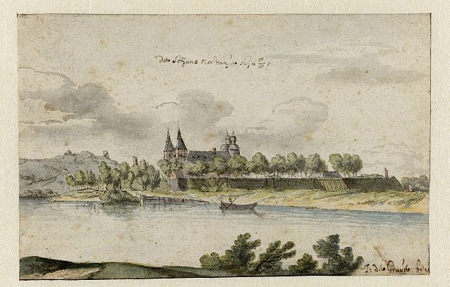 Map of the Fortress Navagne along the river Meuse near Moelingen, Belgium. The fortress was built by the Spanish in 1634-35 around the existing Castle of Navagne. The fortress was destroyed in 1674 by the French, rebuilt, and destroyed once more in 1702. The drawing by Josua de Grave dates from 1670.